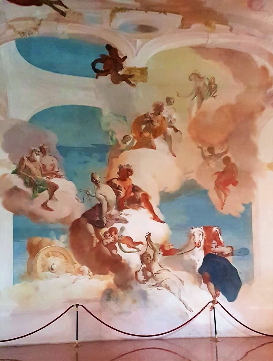 Phaethon asks the Sun's chariot to Apollo - Fresco wall east, noble hall of Villa Baglioni in Massanzago.